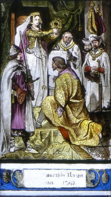 A stained-glass window on the Great Hall of the Pena Palace, in Sintra, Portugal. Its label is partially illegible ("[?]narische Union [?]eden 1397") but it suggests it's a depiction of Eric of Pomerania being crowned King of Denmark, Norway and Sweden by Margaret I (as part of the Kalmar Union).